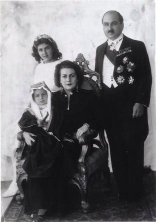 Prince and Princess Zeid Al-Hussein with their children Princess Shirin and Prince Raad, in Baghdad.